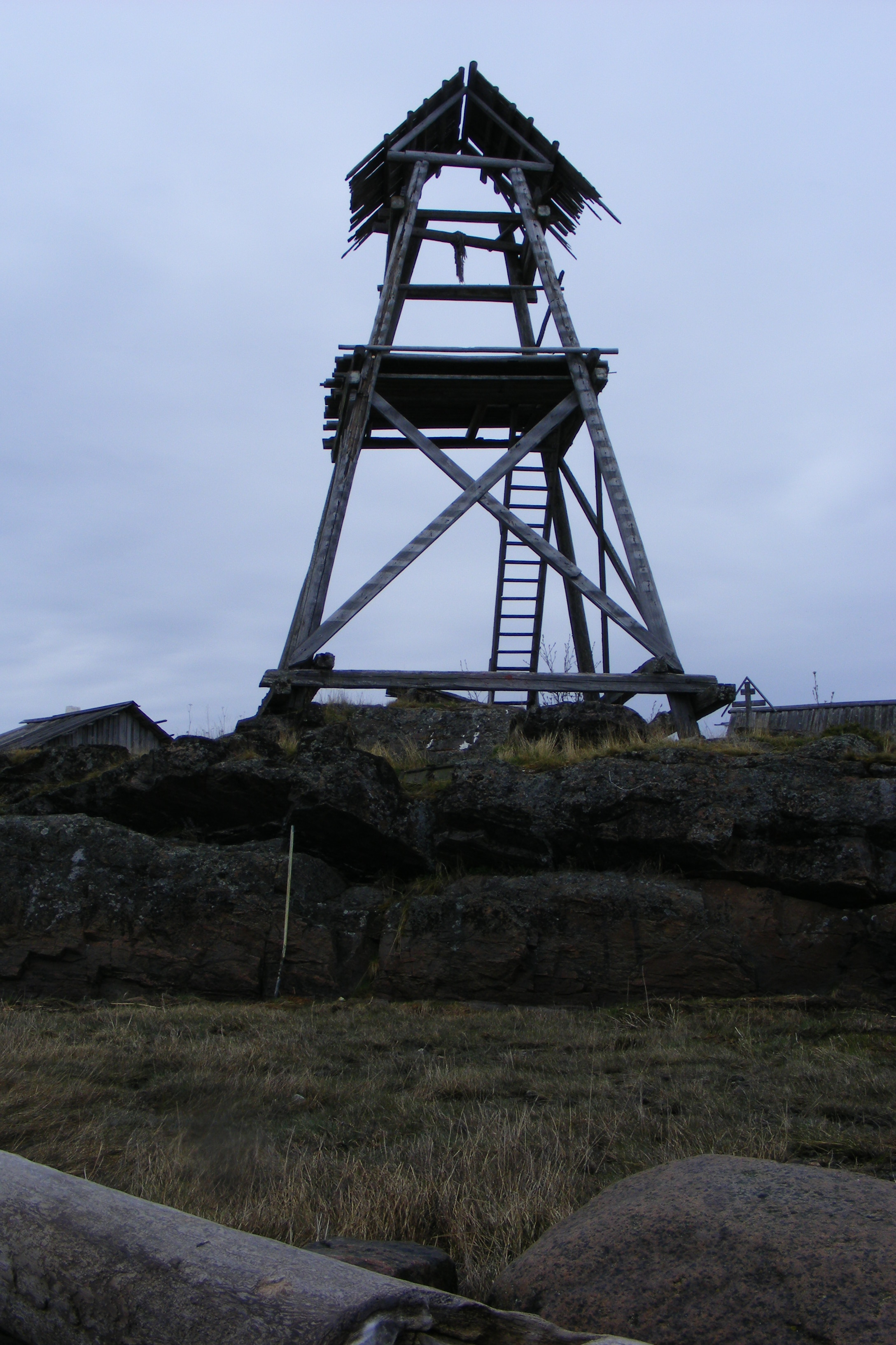 The belltower - "Ostrov" movies scenery, Rabocheostrovsk, Russia.